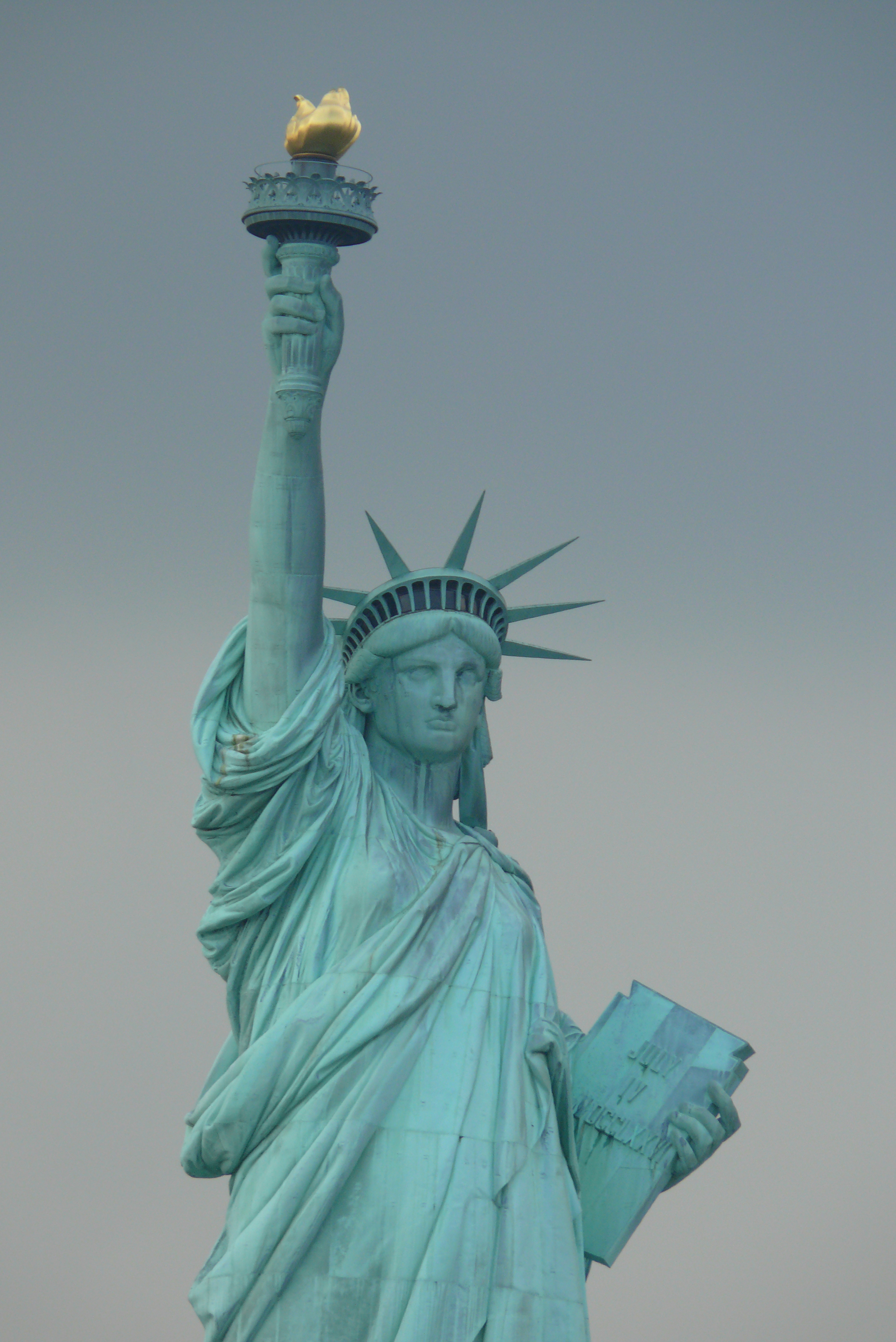 Statue of Liberty, also known as Lady Liberty her official name is Liberty Enlightening the World. It was dedicated on October 28, 1886, and is a monument commemorating the centennial of the signing of the United States Declaration of Independence, given to the United States by the people of France to represent the friendship between the two countries established during the American Revolution.